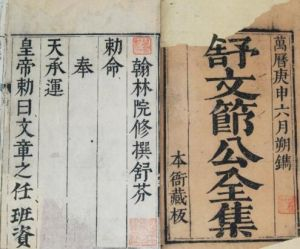 Shu Fen